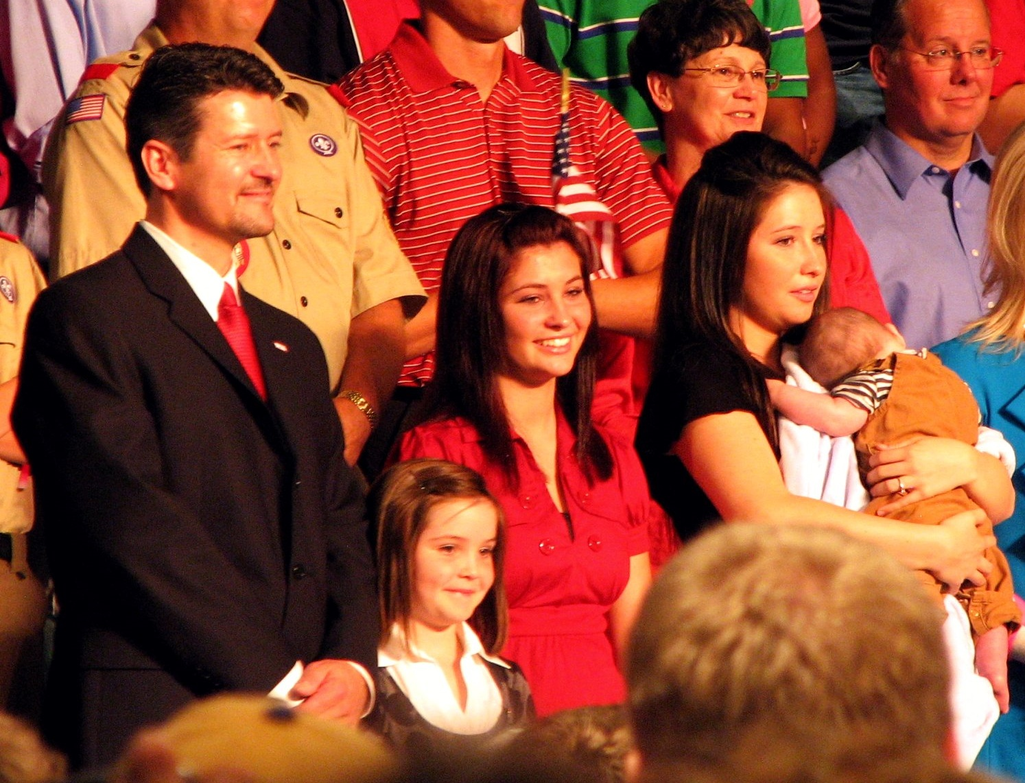 Sarah Palin's family at the announcement of Sarah Palin as the VP candidate